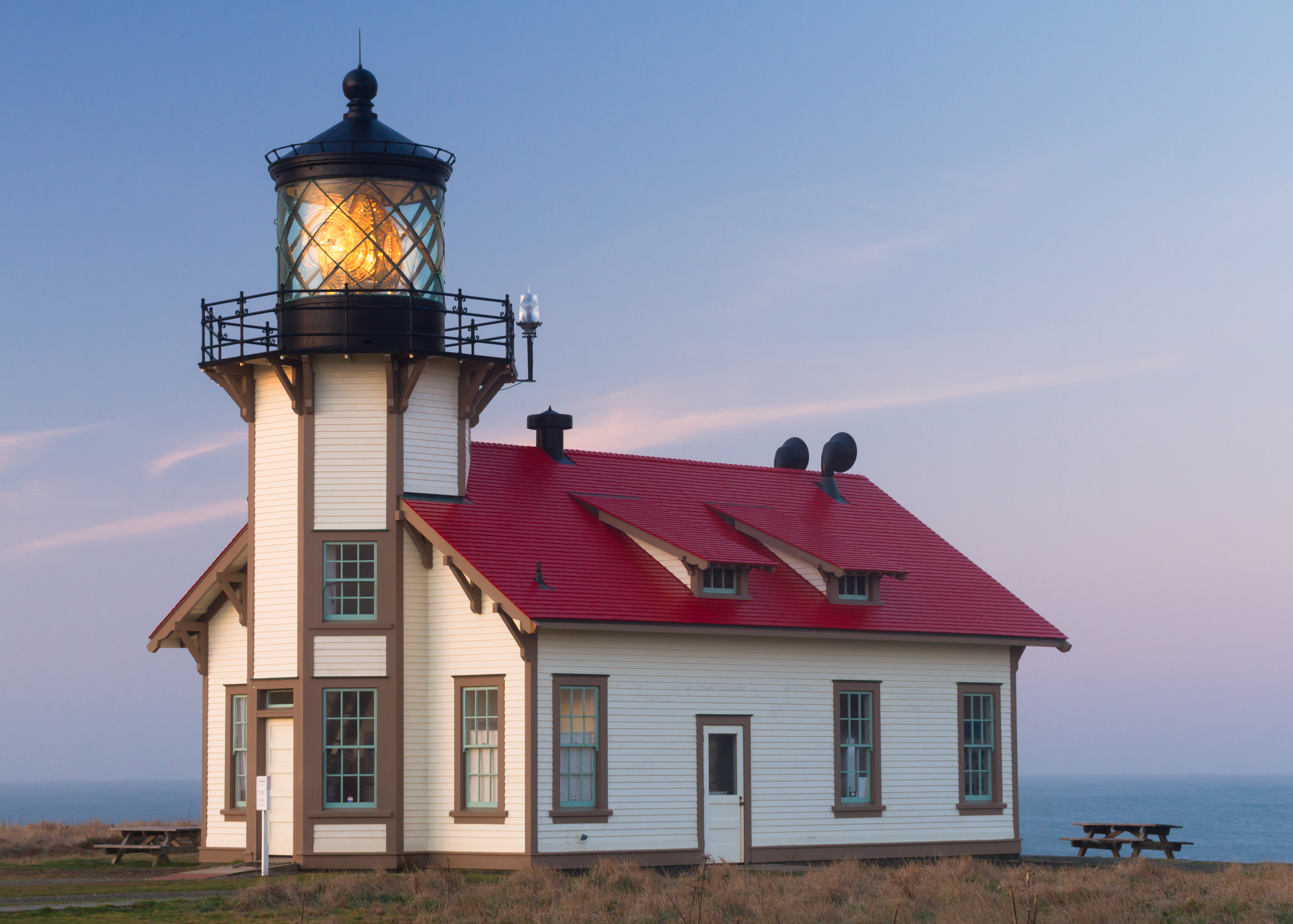 Point Cabrillo Lighthouse, Mendocino County, California.